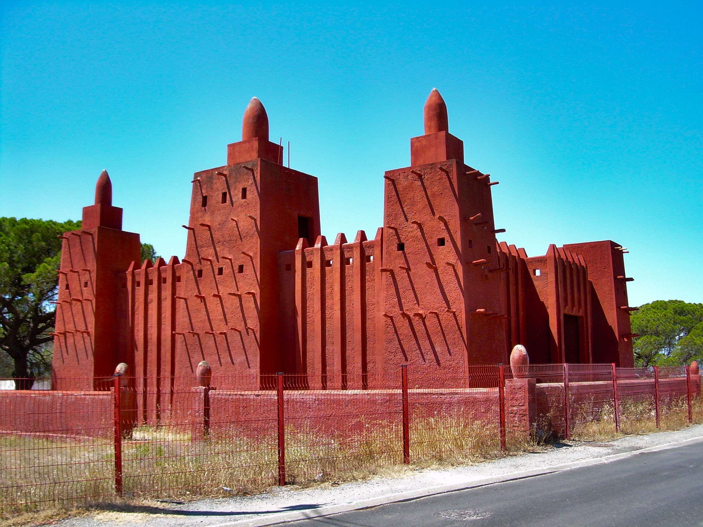 Mosque Missiri, Frejus, France